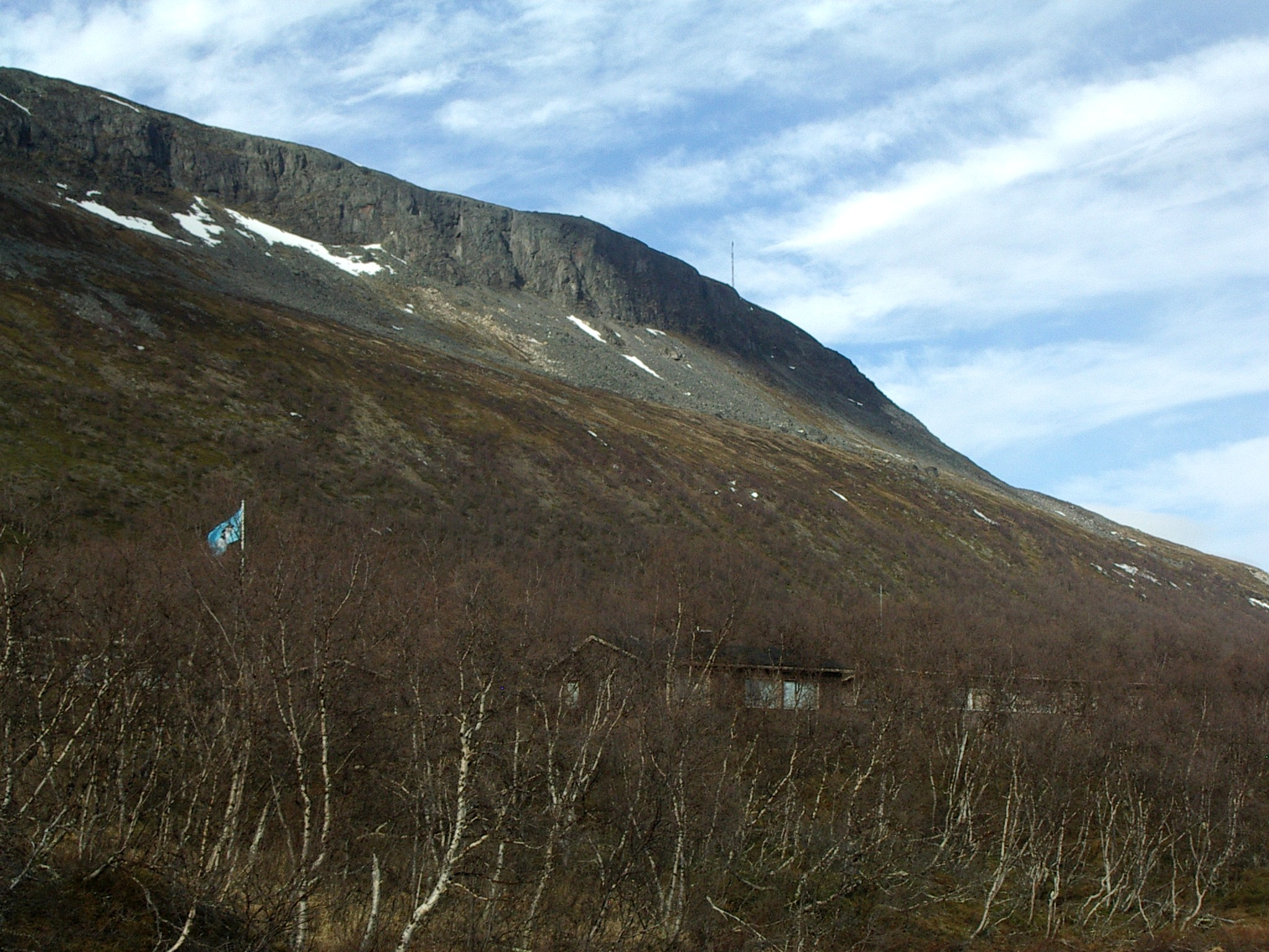 Kilpisjärvi Biological Station and Saana fell in Kilpisjärvi, Enontekiö, Finland